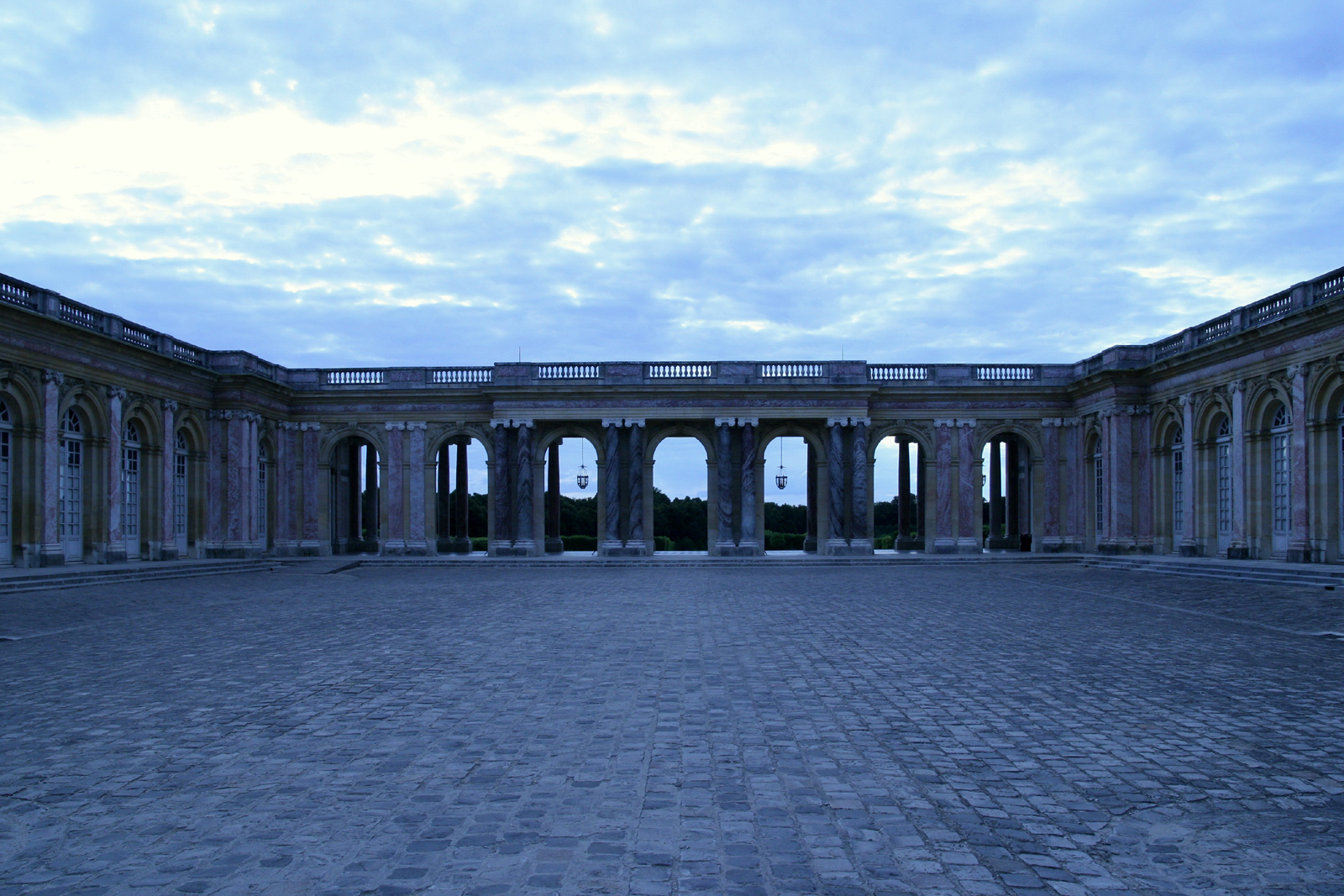 Grand Trianon